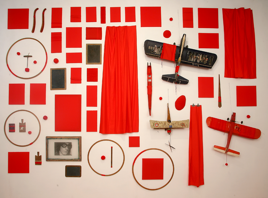 ph. Mark E. Smith